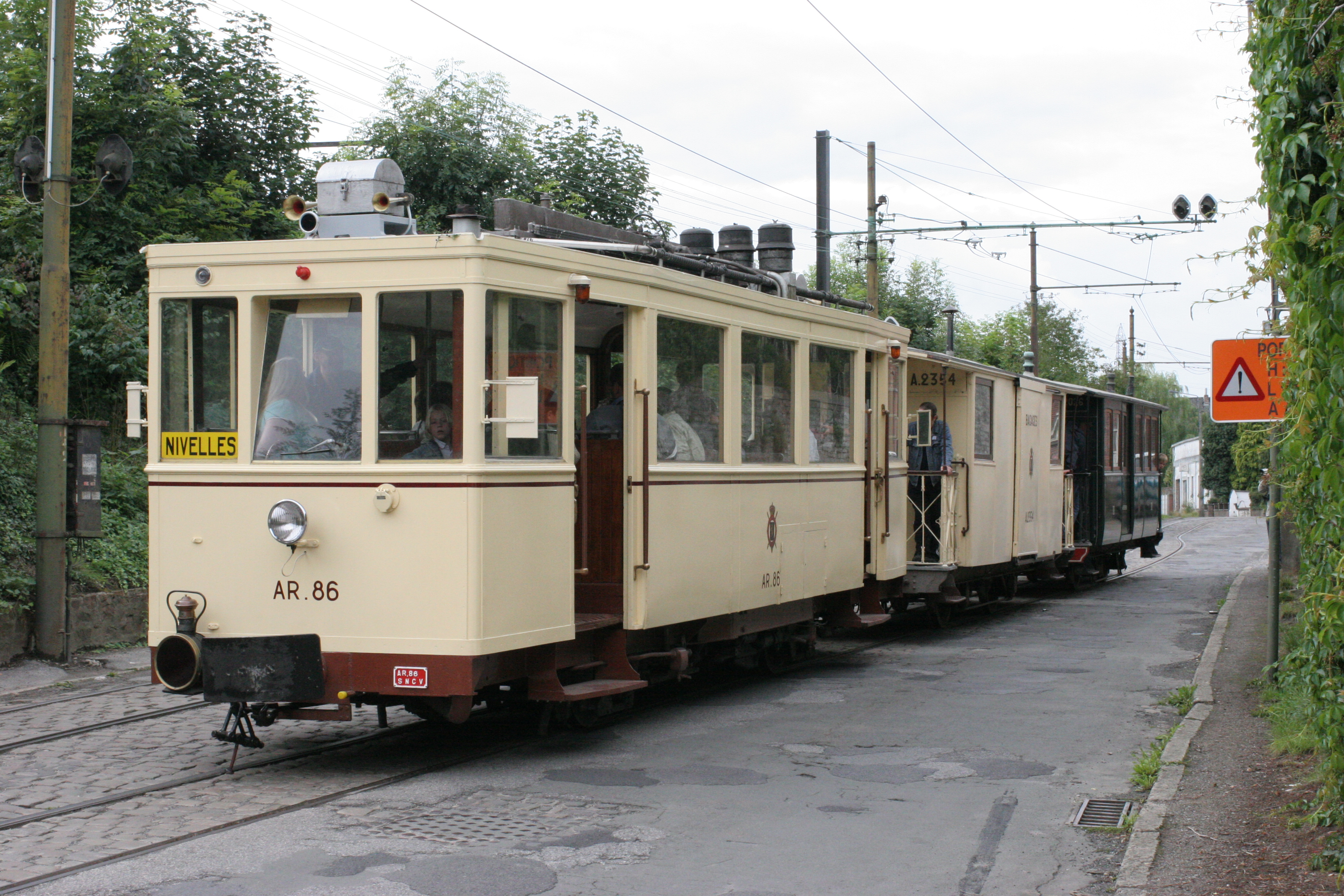 B - NMVB - 2.3. AR 86 - 2006-08-13 - Lobbes